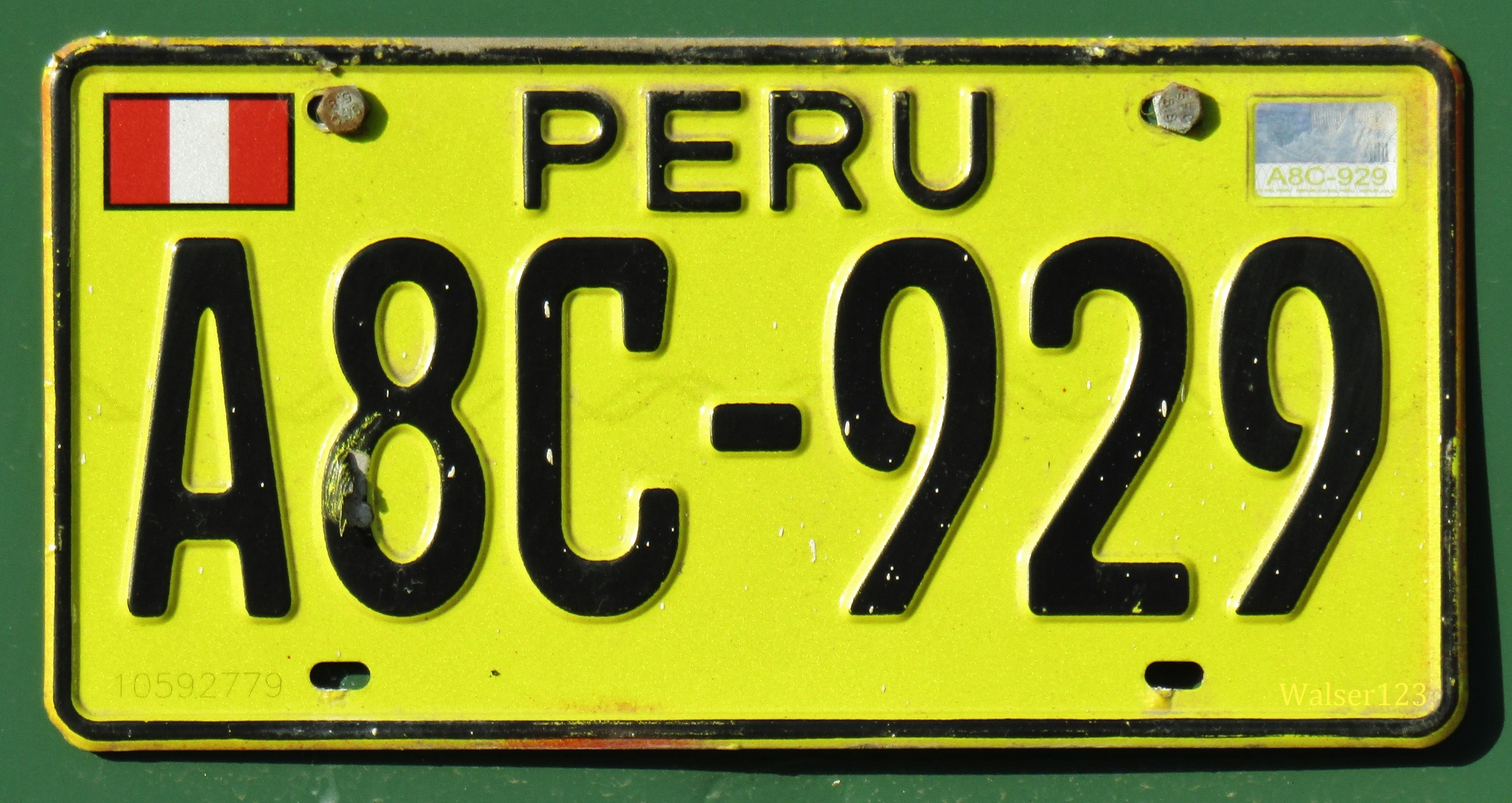 Peru Truck plate, 2010 series, seen near Zürich, Switzerland, 2017